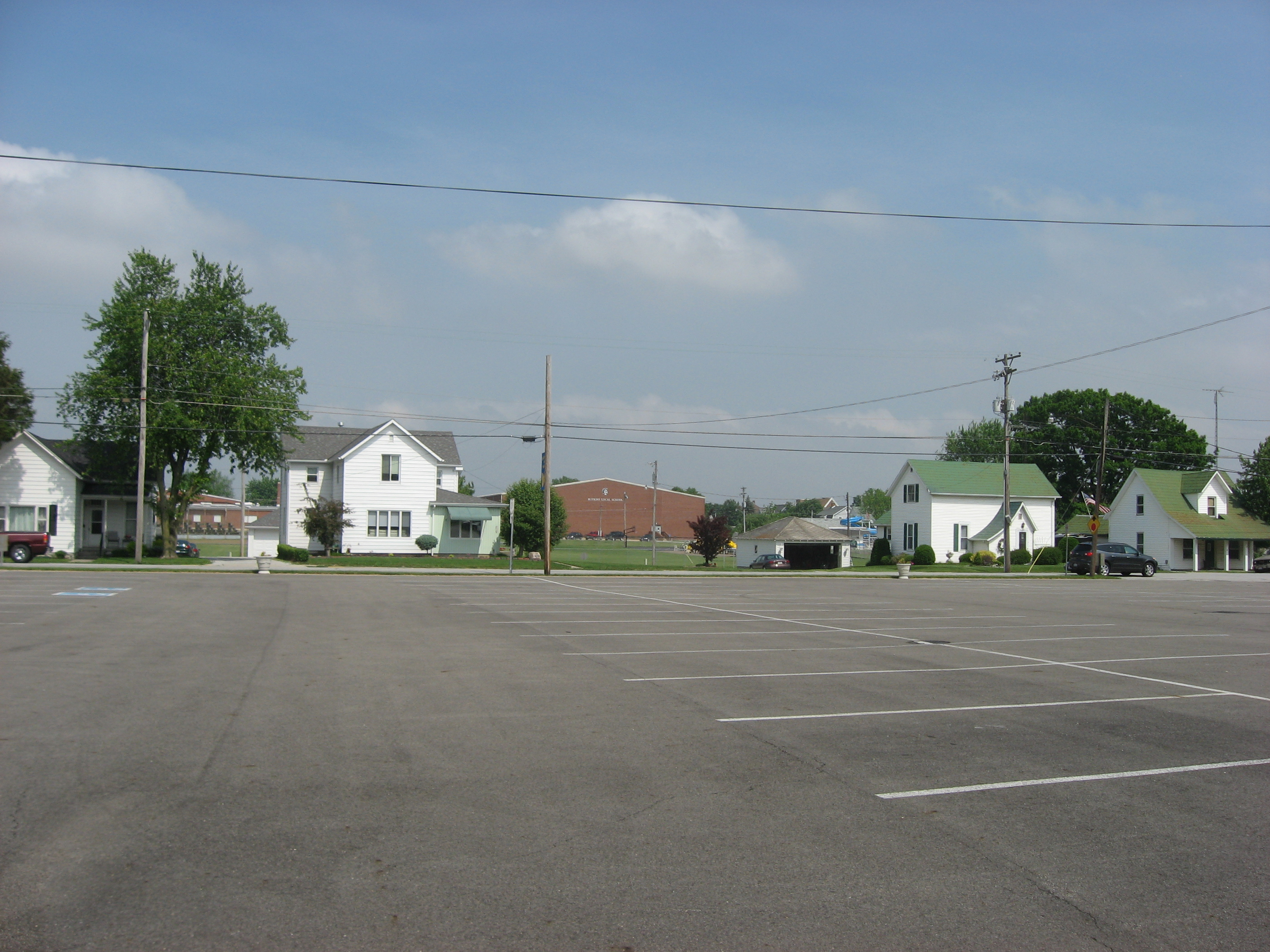 Site of the Botkins Elementary School, a former Catholic school located along N. Main Street in Botkins, Ohio, United States, viewed from its western end. Now a parking lot, the school that once occupied the site was built in 1921. It was listed on the National Register of Historic Places as a part of the Cross-Tipped Churches of Ohio Thematic Resources. Despite having been destroyed, the school remains still listed on the Register. Botkins' public school, located along N. Sycamore Street, is visible in the distance.